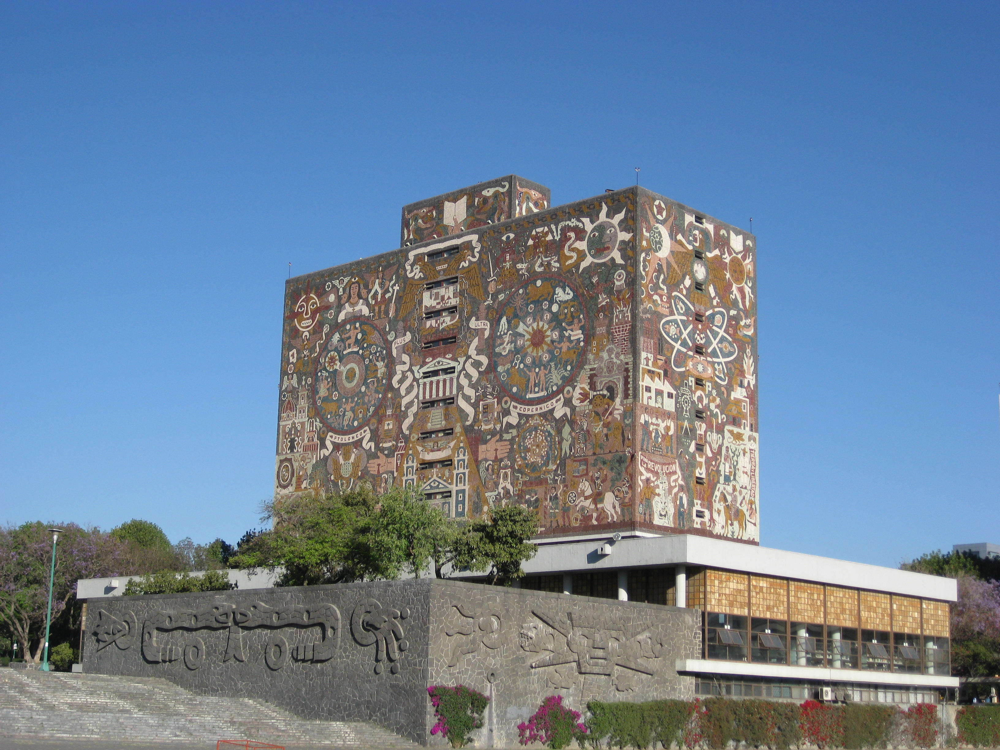 The Central Library building on Mexico's National Autonomous University (UNAM) main campus.